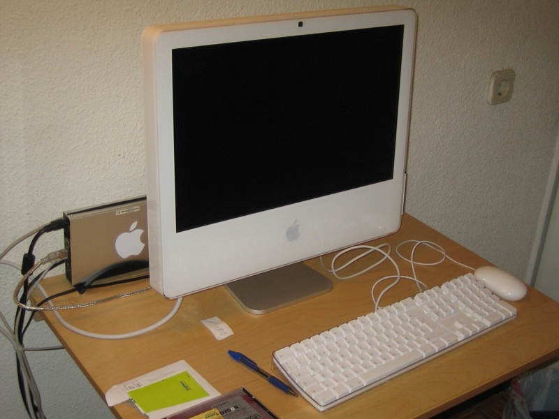 Apple iMac G5 with bundled iSight camera